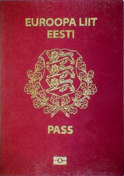 Estonian. Cover of an Estonian biometric passport. Citizen's passport.